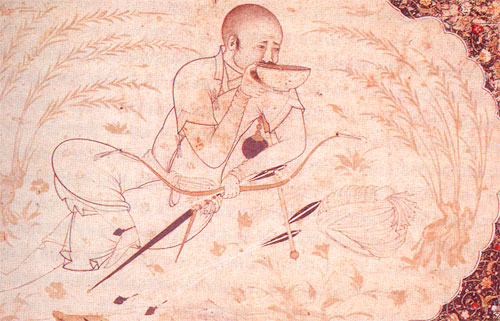 The il-Khan Hulagu rests. From a medieval manuscript in the British Museum.